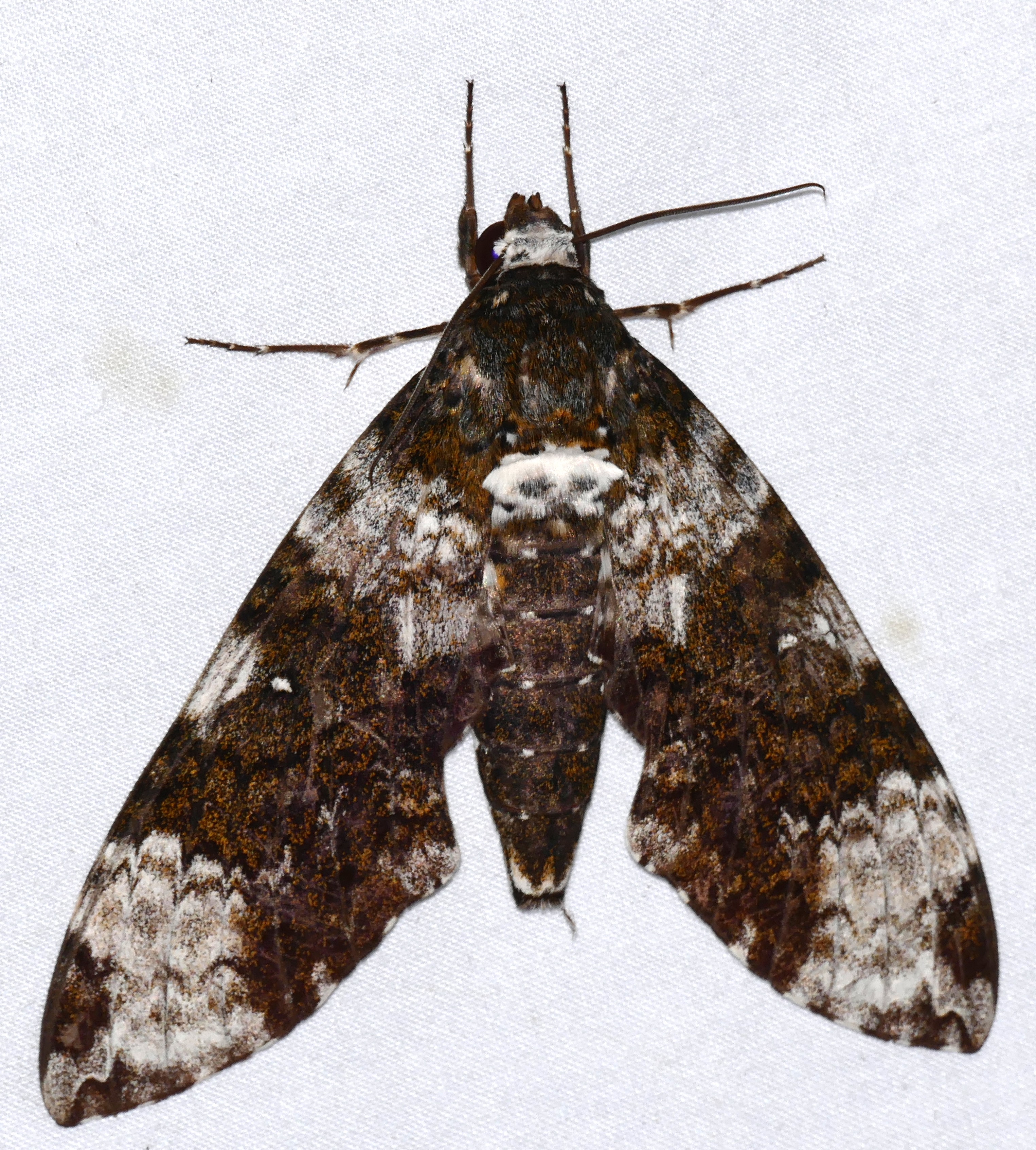 PK48, D6 Route de Kaw, Roura, French Guyana, FRANCE